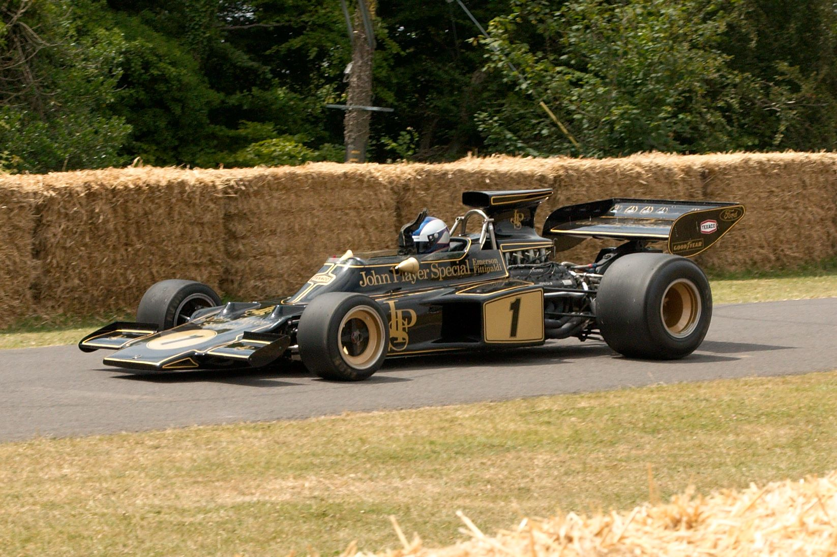 Lotus Cosworth 72E